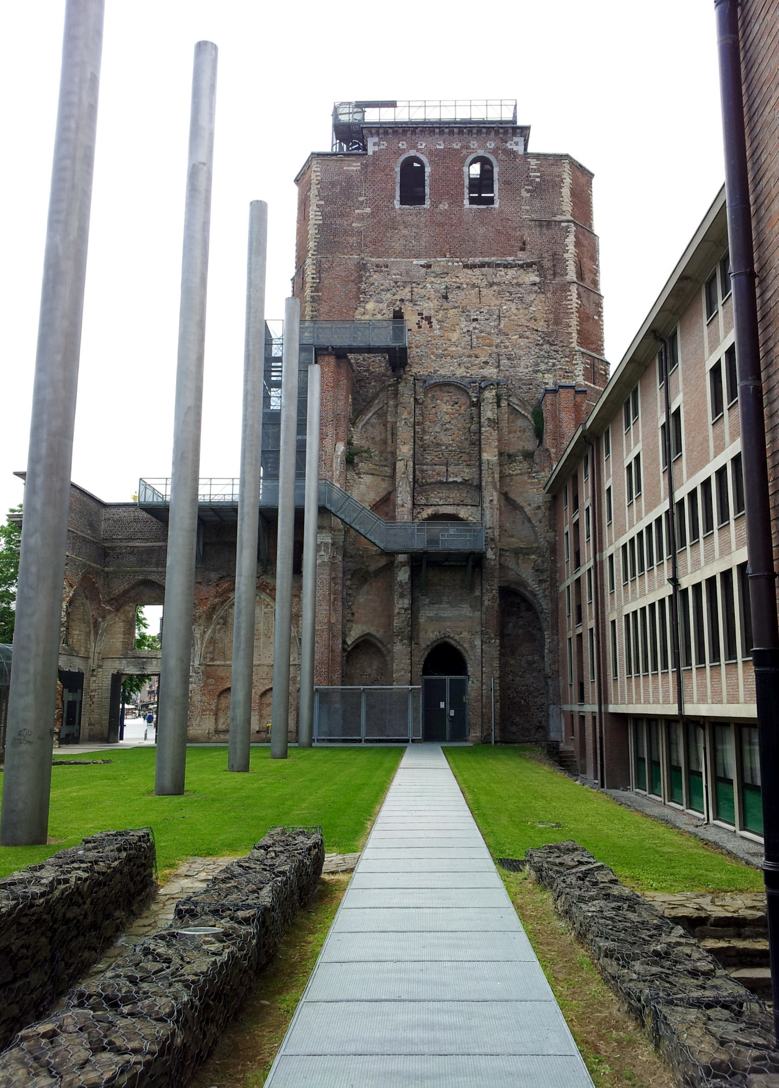 View from the North of the tower of the demolished abbey church of the former Benedictine abbey in Sint-Truiden, Belgium. The poles on the left indicate the approximate height of the church. The slope on the left is the present entrance to the crypt.